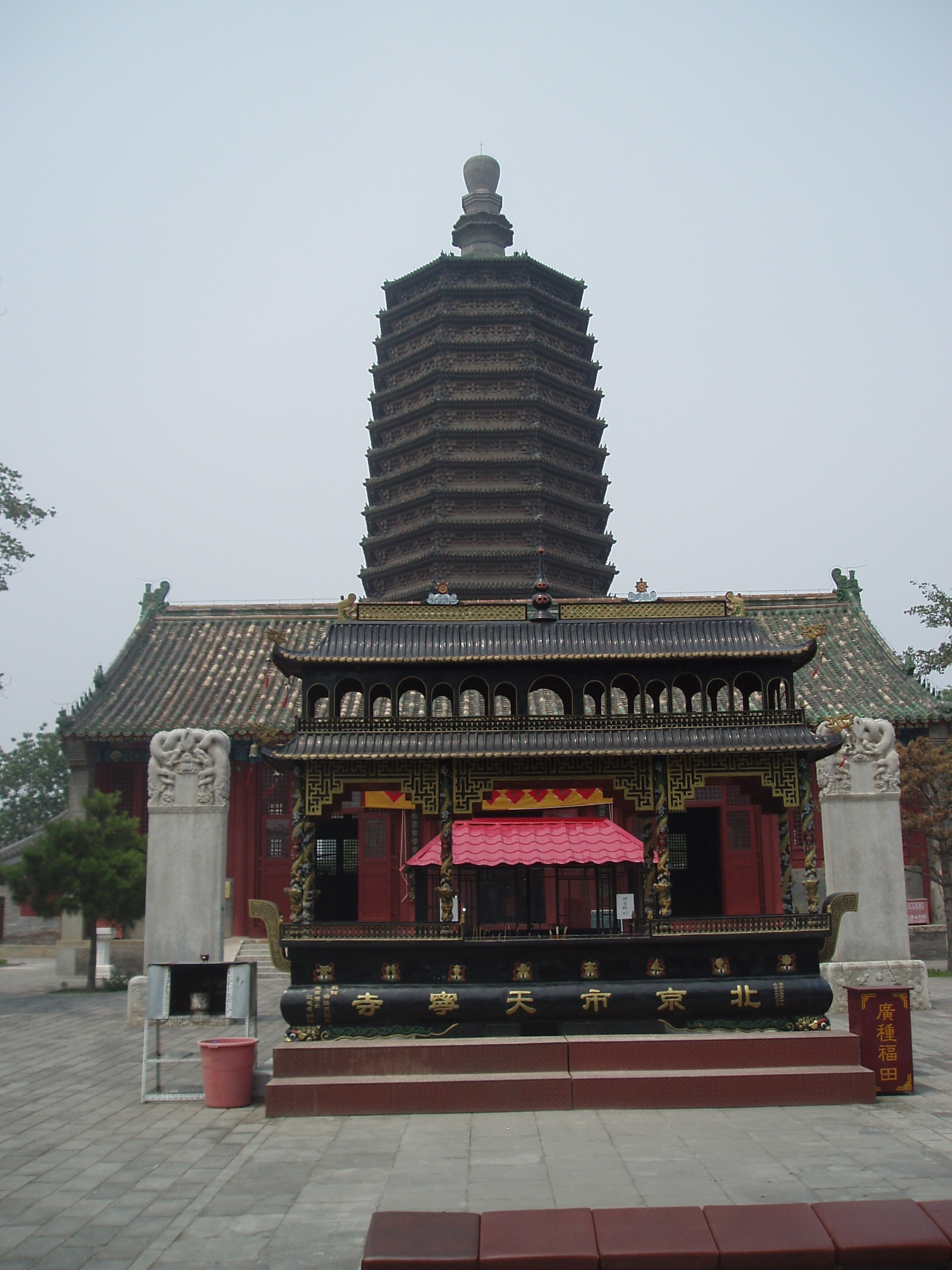 Looking north